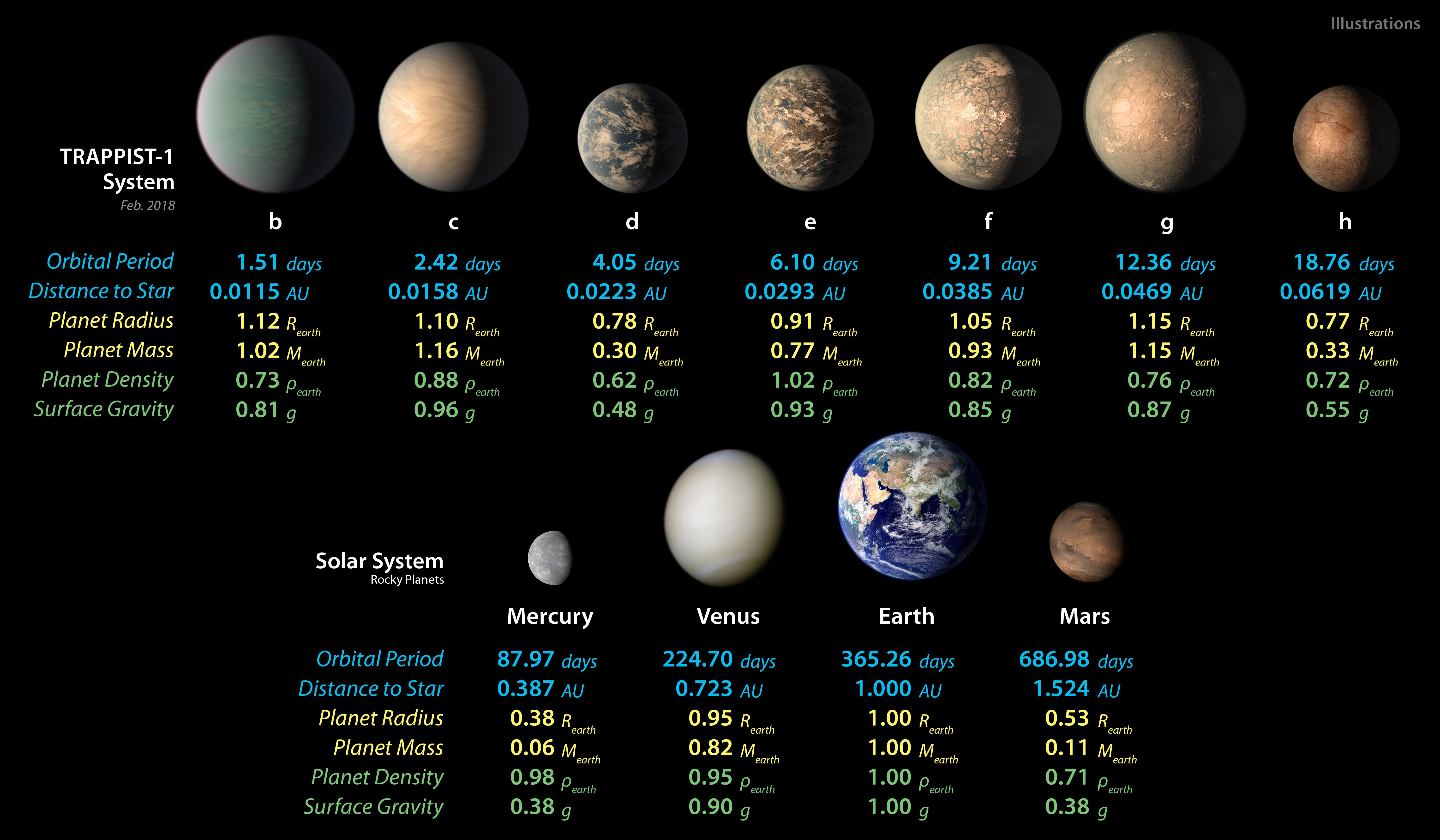 PIA22094: TRAPPIST-1 Planet Lineup - Updated Feb. 2018 This chart shows, on the top row, artist concepts of the seven planets of TRAPPIST-1 with their orbital periods, distances from their star, radii, masses, densities and surface gravity as compared to those of Earth. These numbers are current as of February 2018. On the bottom row, the same numbers are displayed for the bodies of our inner solar system: Mercury, Venus, Earth and Mars. The TRAPPIST-1 planets orbit their star extremely closely, with periods ranging from 1.5 to only about 20 days. This is much shorter than the period of Mercury, which orbits our sun in about 88 days. This image is an update to PIA21425. The masses and densities of the TRAPPIST-1 planets were determined by careful measurements of slight variations in the timings of their orbits using extensive observations made by NASA's Spitzer and Kepler space telescopes, in combination with data from Hubble and a number of ground-based telescopes. These measurements are the most precise to date for any system of exoplanets. In this illustration, the relative sizes of the planets are all shown to scale. NASA's Jet Propulsion Laboratory, Pasadena, California, manages the Spitzer Space Telescope mission for NASA's Science Mission Directorate, Washington. Science operations are conducted at the Spitzer Science Center at Caltech, also in Pasadena. Spacecraft operations are based at Lockheed Martin Space Systems Company, Littleton, Colorado. Data are archived at the Infrared Science Archive housed at Caltech/IPAC. Caltech manages JPL for NASA. For additional information about the Spitzer mission, visit and For additional information on the Kepler and the K2 mission, visit For additional information about exoplanets, visit